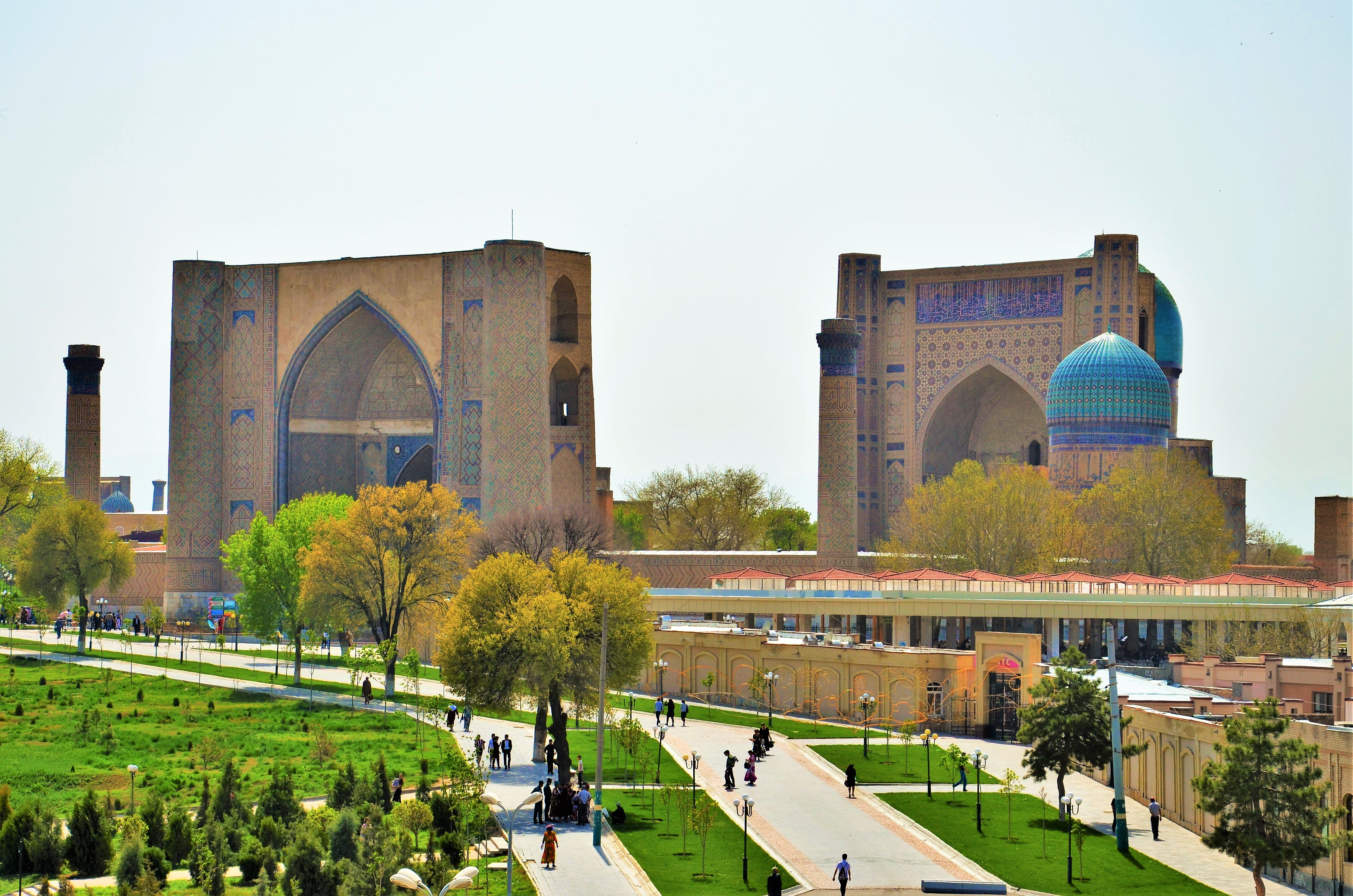 Mosque Bibi-Khanum two portal